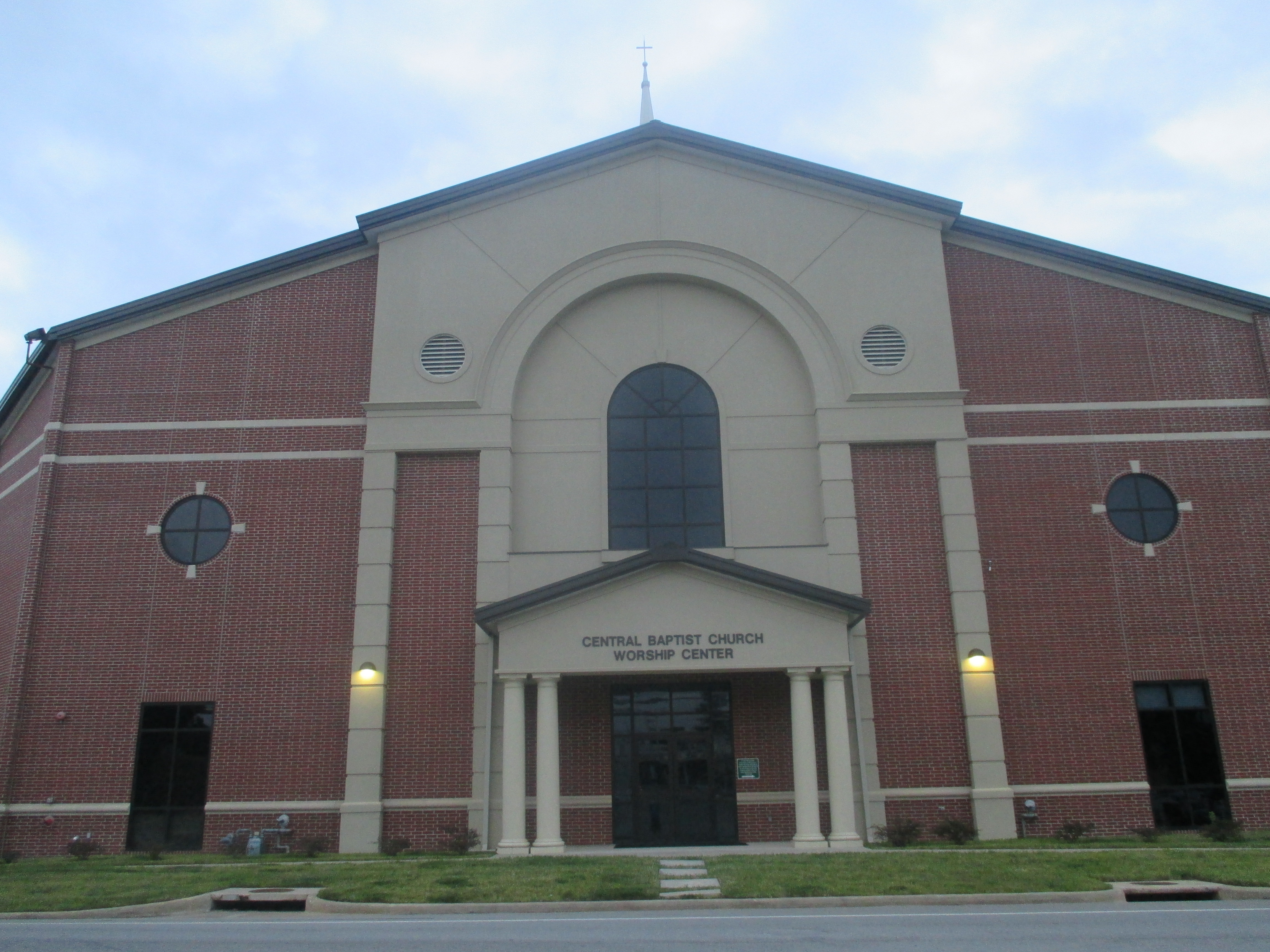 I took photo of Central Baptist Church worship center in Livingston, TX, with Canon camera.